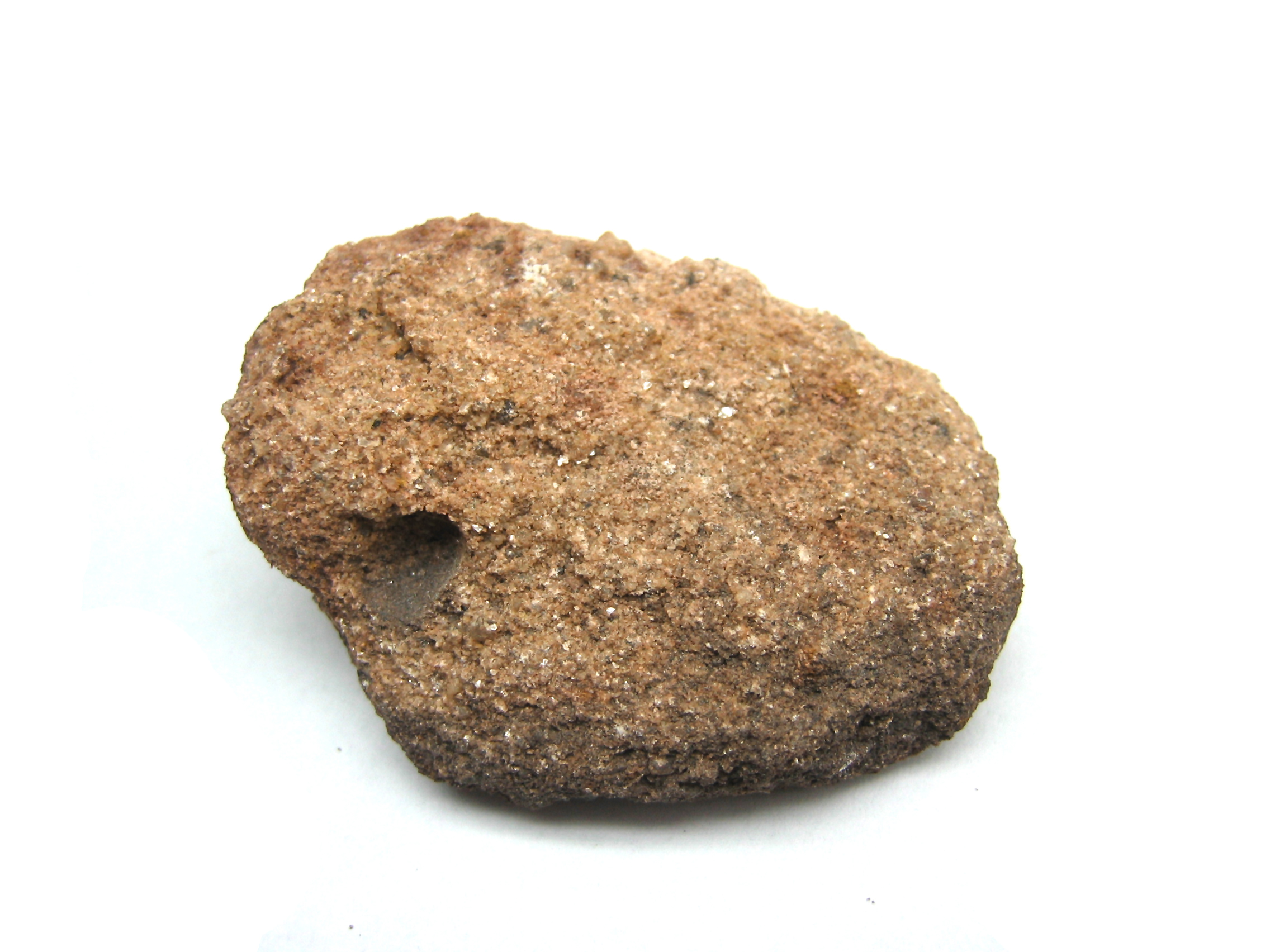 Macro of Millet-Seed Sandstone. It is approximately 1 ½ inches (4 cm) in size.